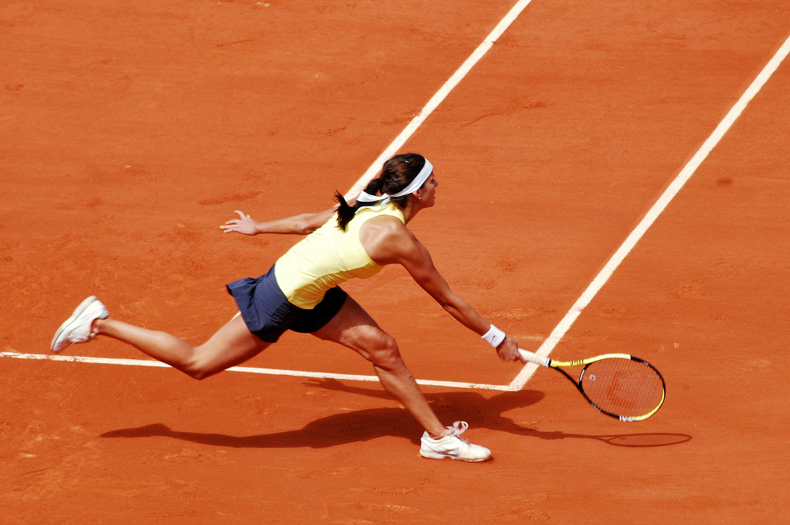 Julia Görges during her 3rd round match with Marion Bartoli. Roland Garros 2011.